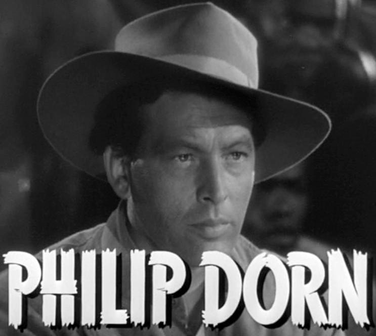 Philip Dorn in Tarzan's Secret Treasure - trailer (cropped screenshot)